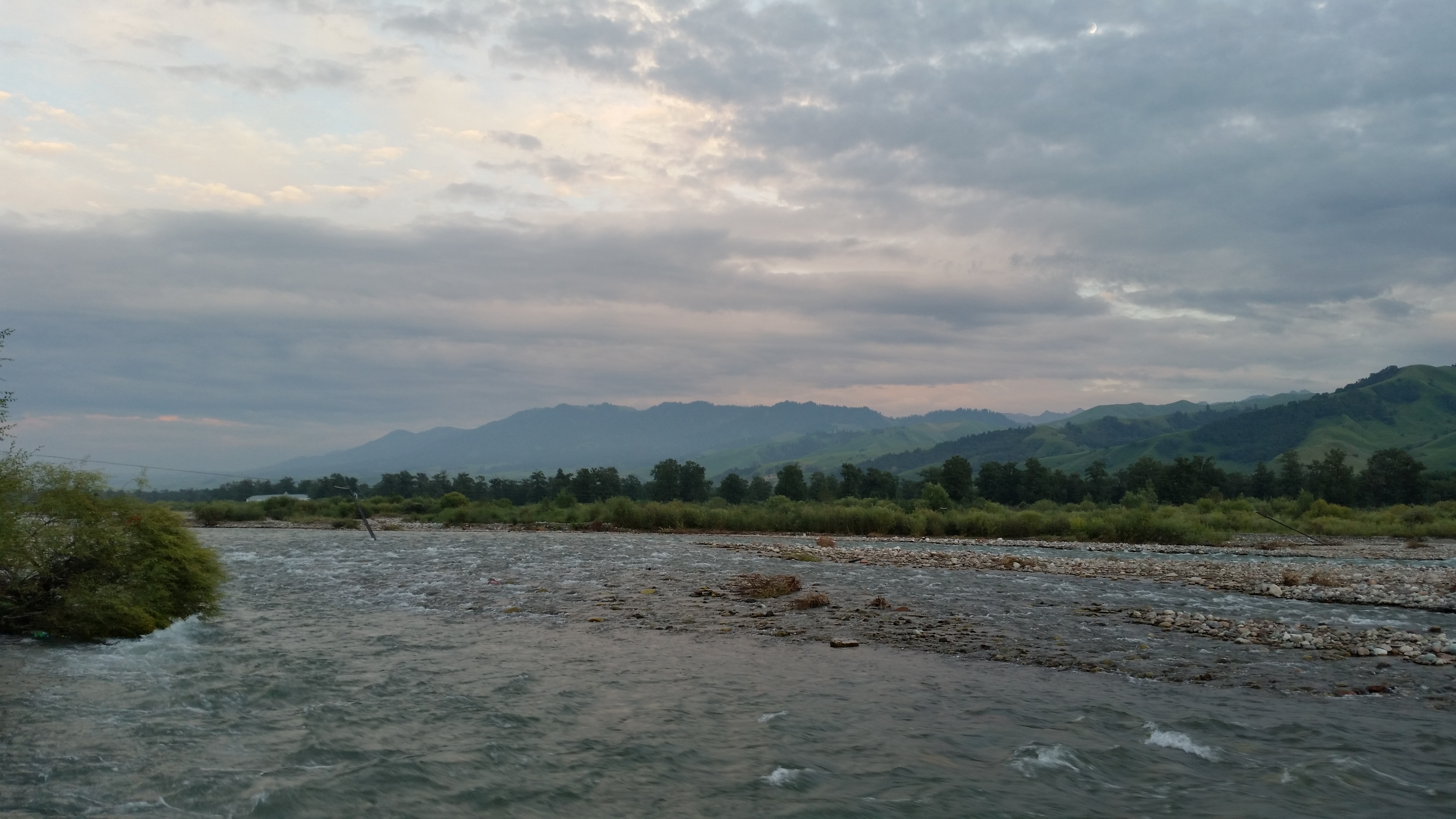 Photo of river Kunges (pinyin: Gǒngnǎisī Hé) at Nalati.